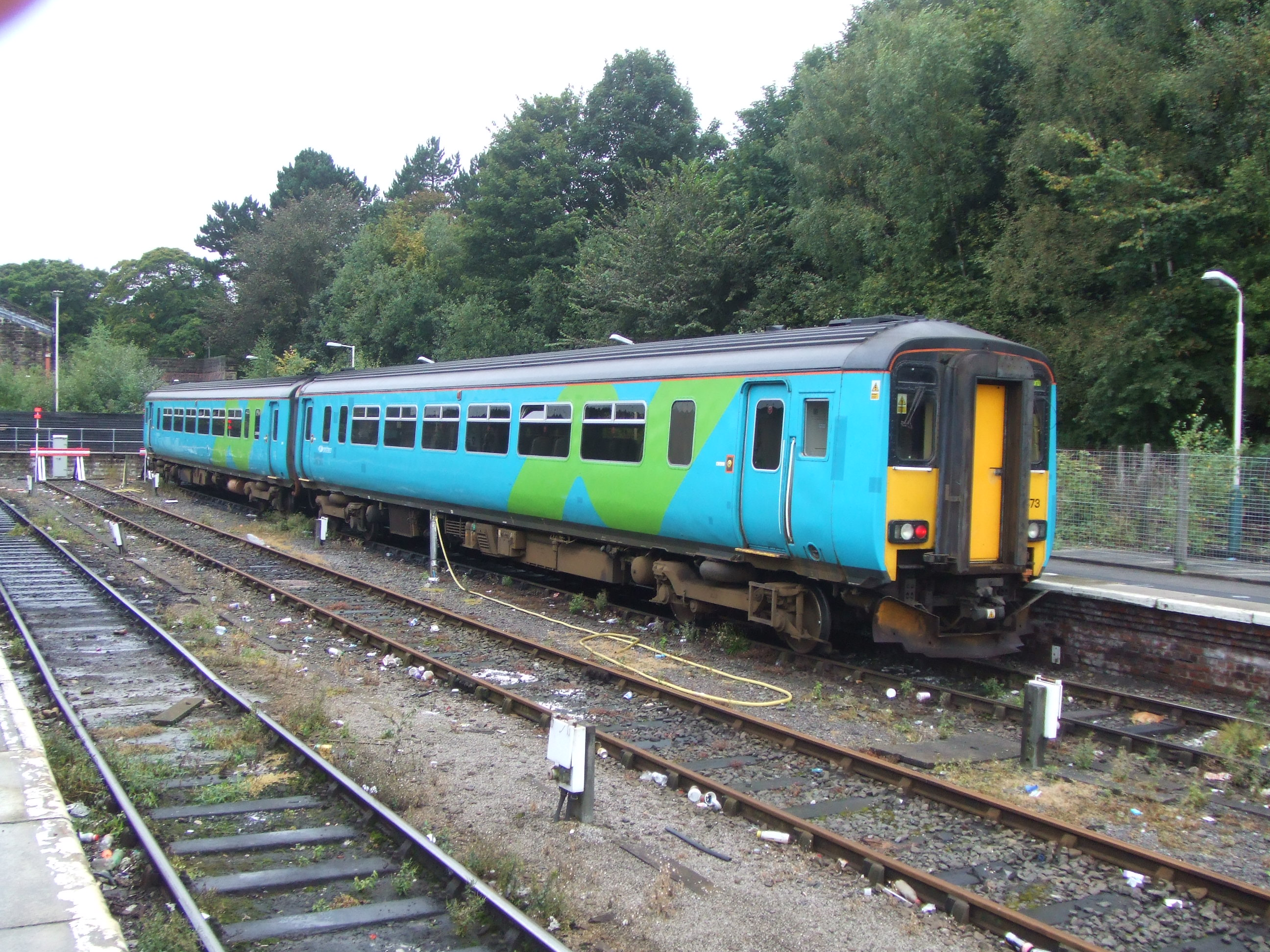 Metro-Cammell Class 156 "Super Sprinter" 2-car dmu No.156 473 of Northern Rail but still in Northern Spirit livery at Buxton on a Manchester Piccadilly service, 09/07.